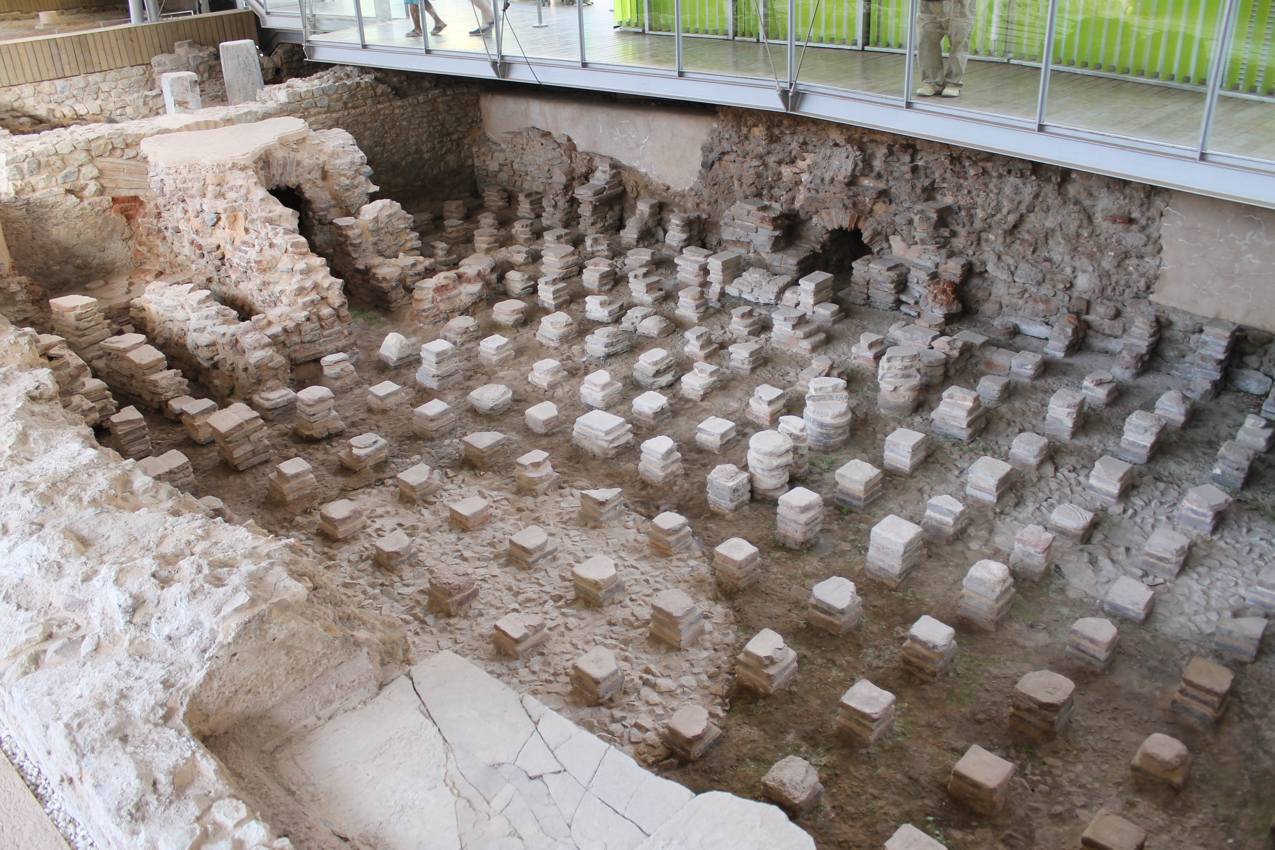 The hypocaust of the thermae of Cartagena, in the Ancient Roman forum district. The image shows the small pillars that allowed the circulation of hot air under the floor of the caldarium (hot bath room).